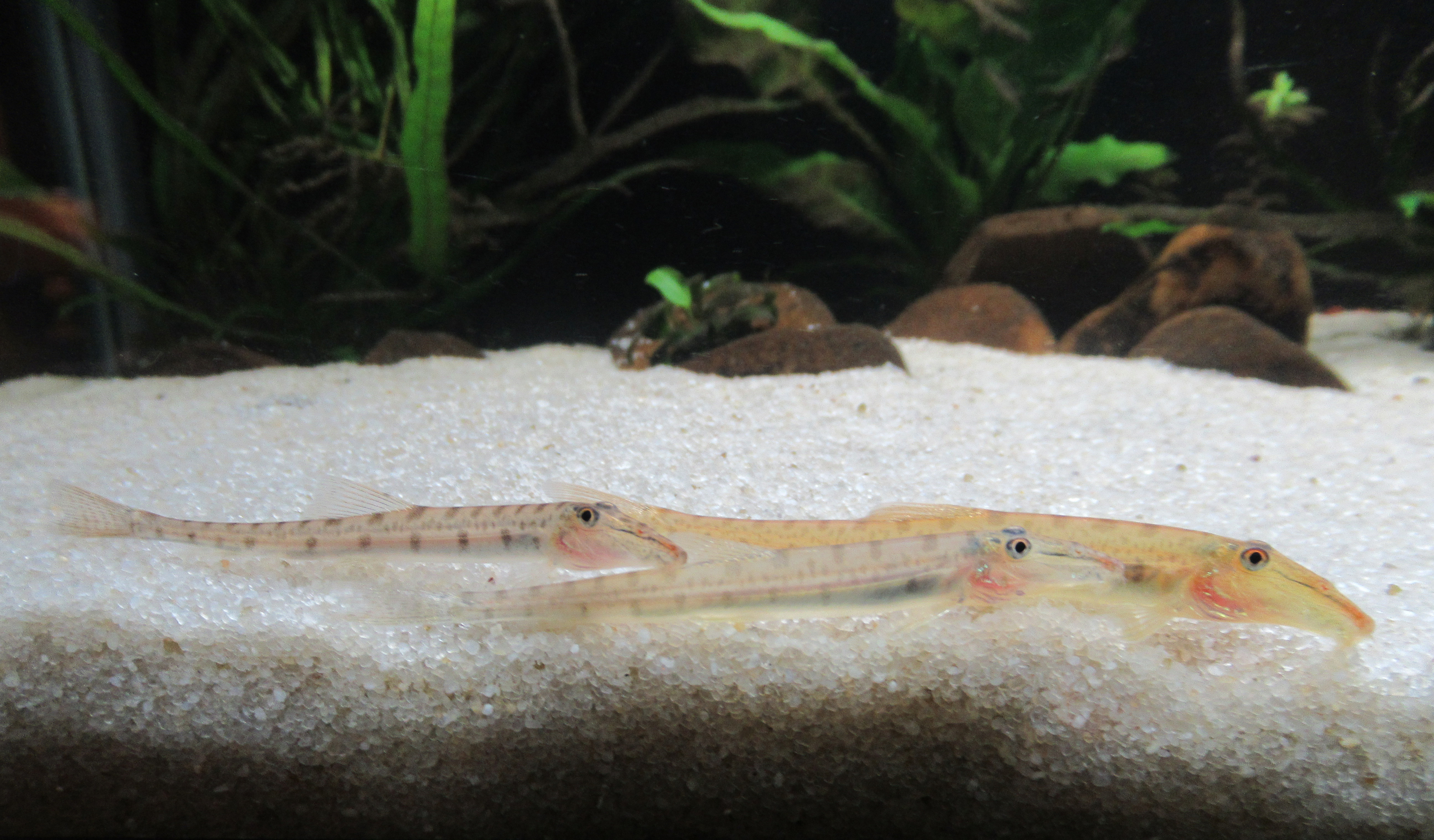 Acantopsis rungthipae in the aquarium